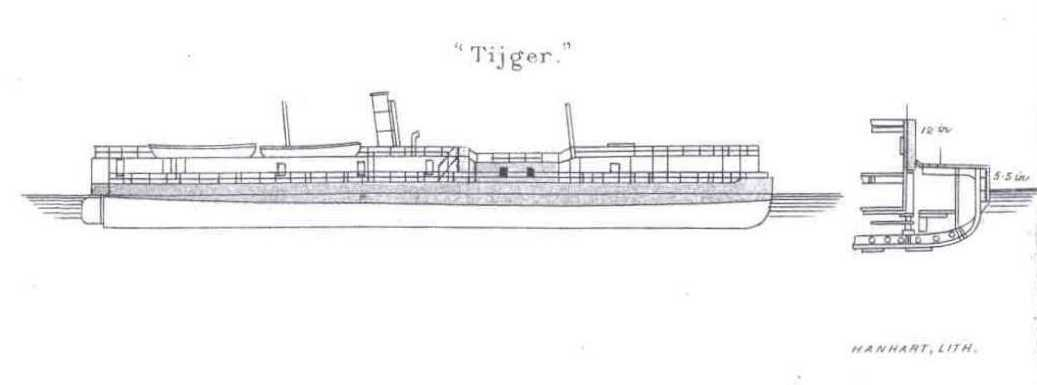 The Dutch Monitor Tijger of the Heiligerlee class. Launched at Napier's in 1868.